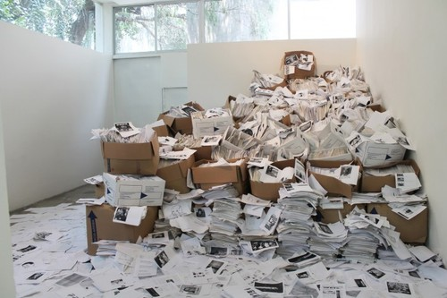 This of a picture with his work of art, "Printing out the Internet."